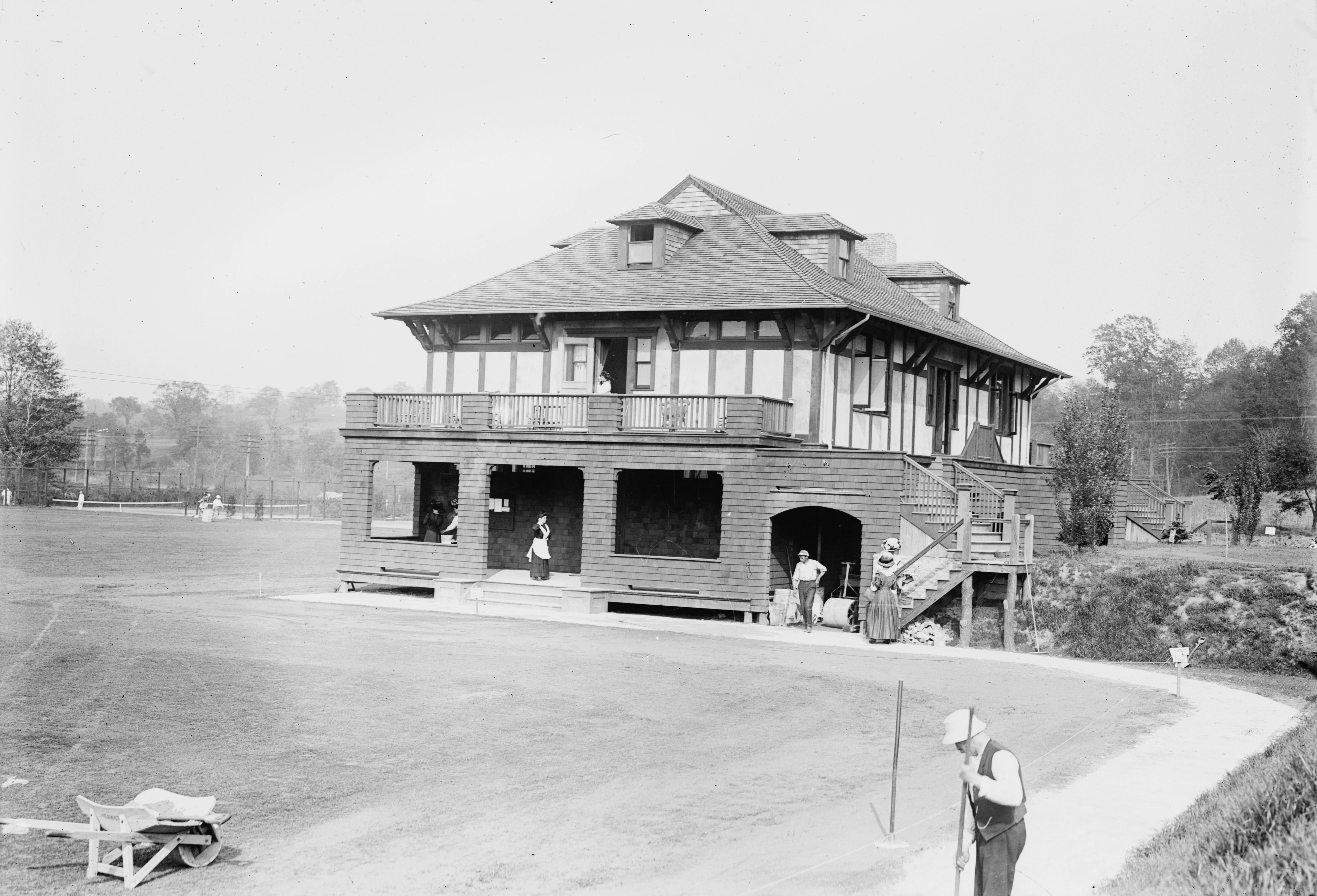 West Side Tennis Club, N.Y. (LOC) in 1912 Bain News Service, publisher. West Side Tennis Club, N.Y. [between 1910 and 1915] 1 negative : glass ; 5 x 7 in. or smaller. Notes: Title from unverified data provided by the Bain News Service on the negatives or caption cards. Forms part of: George Grantham Bain Collection (Library of Congress). Subjects: N.Y. Format: Glass negatives. Repository: Library of Congress, Prints and Photographs Division, Washington, D.C. 20540 USA, General information about the Bain Collection is available at Persistent URL: Call Number: LC-B2- 2452-10